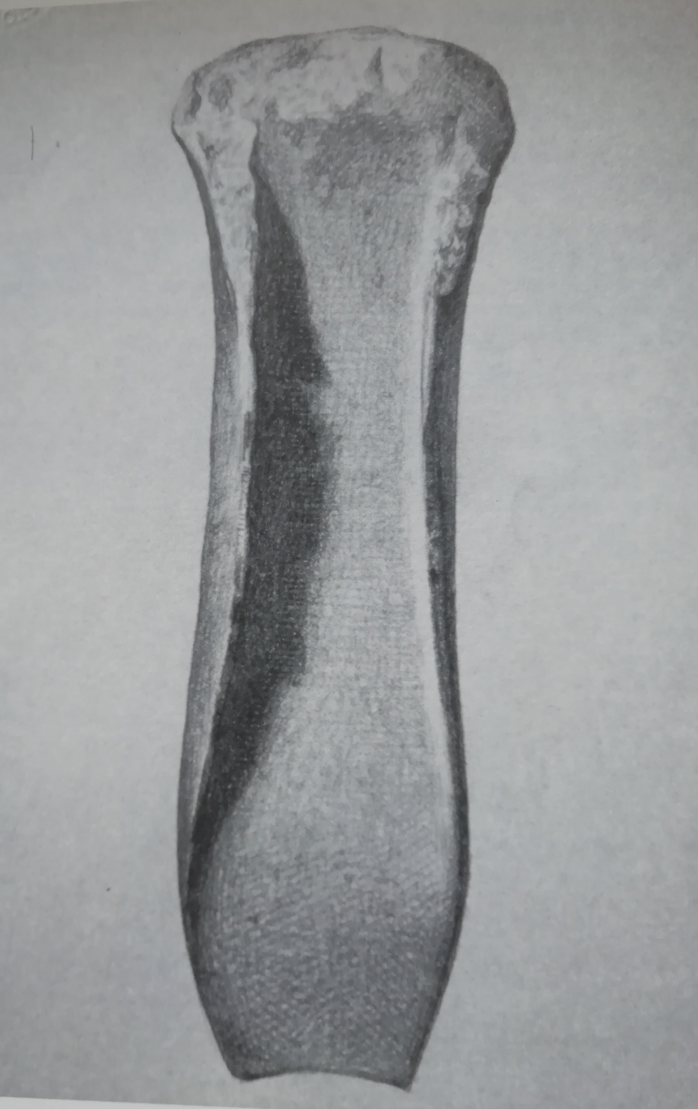 Ascia preistorica Luigi Bruzza